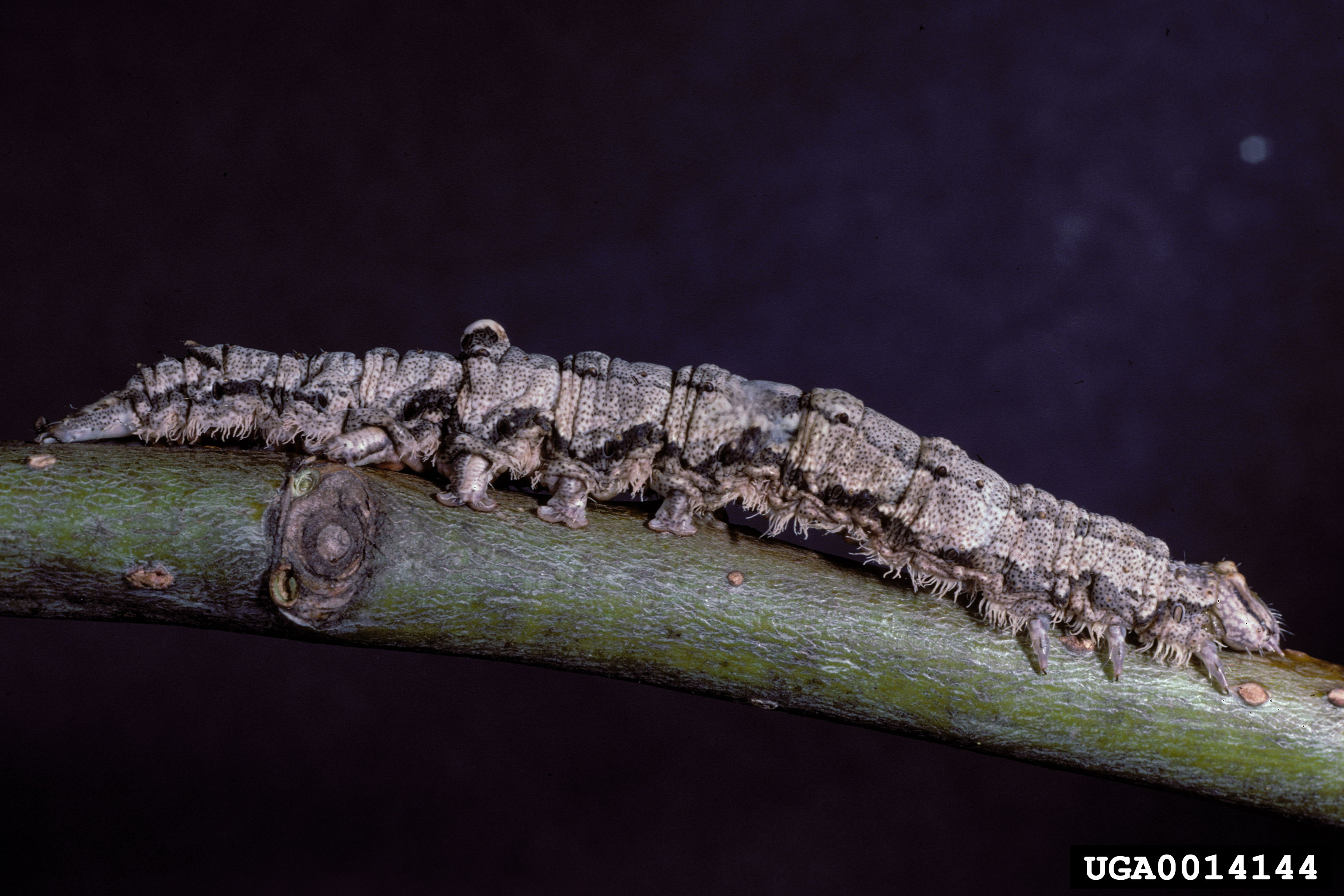 Catocala carissima caterpillar